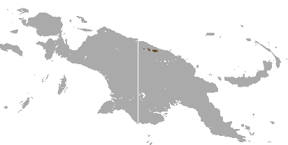 Tenkile (Dendrolagus scottae) range